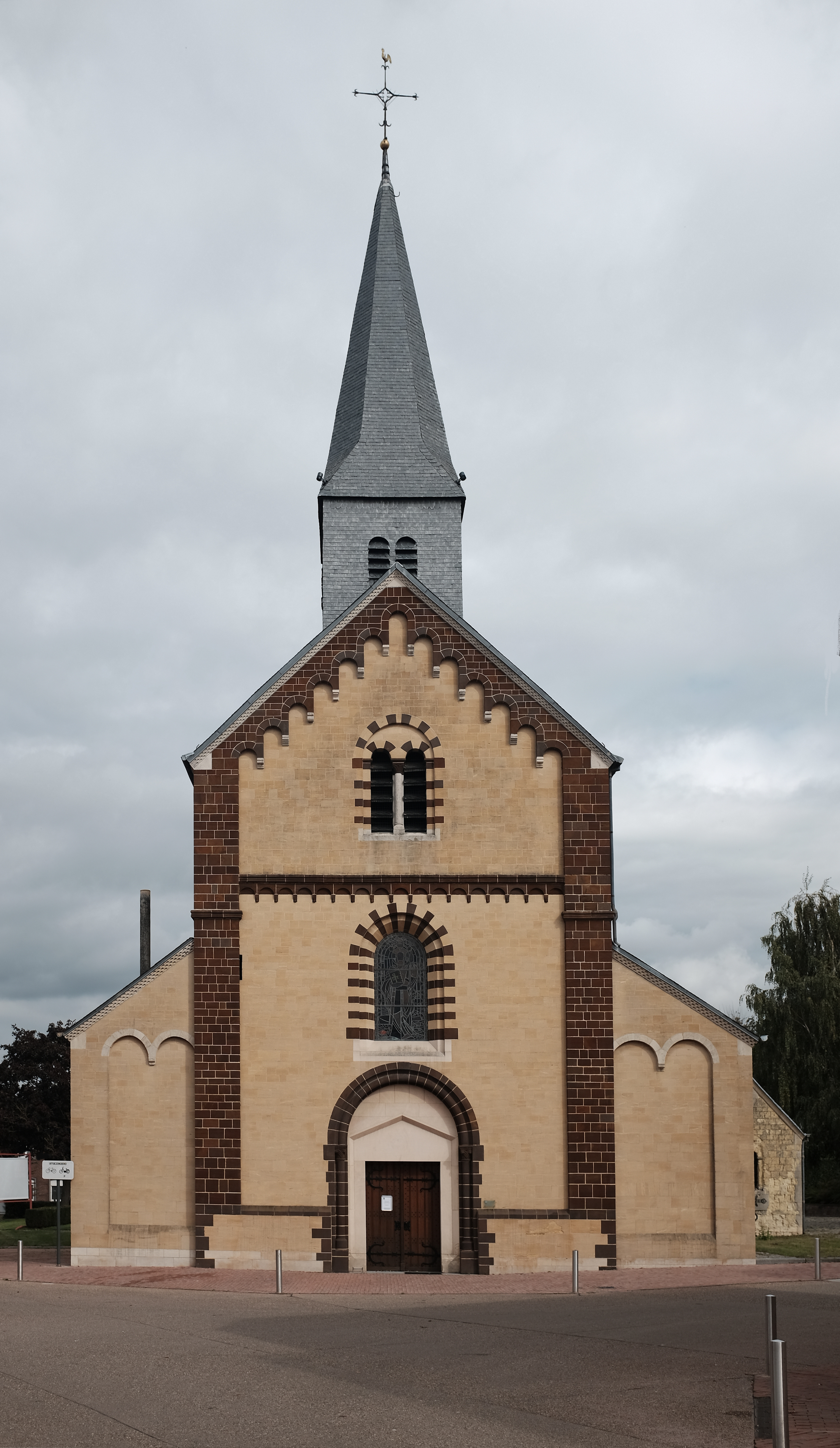 Saint-Peter's, 12th century Roman church, heavily restored in the 19th century